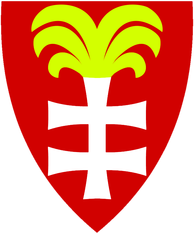 Reconstruction of the coat of arms of Bubek noble family